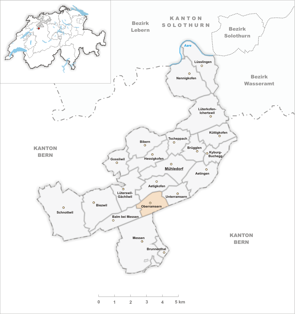 Municipality Oberramsern